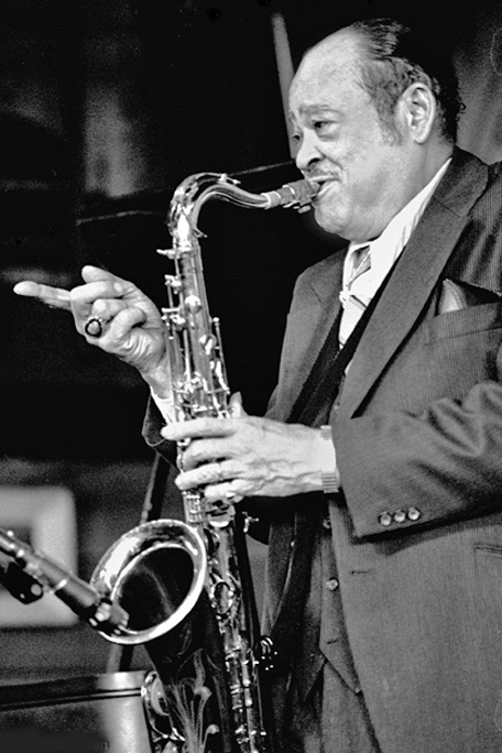 Arnett Cobb at Bach Dancing & Dynamite Society, Half Moon Bay CA 1979. Photo: Brian McMillen